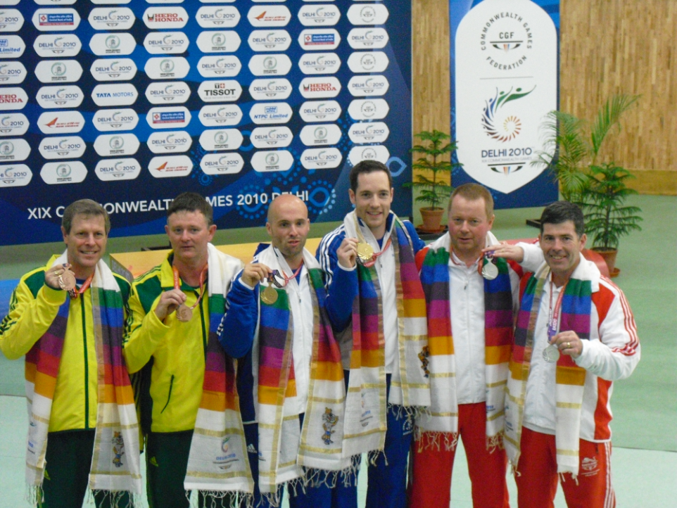 Medalists of the 50 metre rifle prone pairs men at the 2010 Commonwealth Games in Delhi. From the left: Warren Potent, David Clifton, Neil Stirton, Jonathan Hammond, Mike Babb, and Richard Wilson.